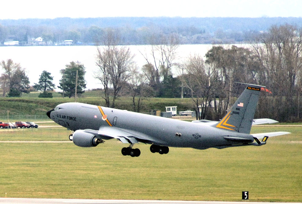 Known as the “Commander’s Plane” due to the distinctive yellow markings, a KC-135 Stratotanker lifts off at Selfridge Air National Guard Base, Mich., Nov. 4, 2012. The KC-135 is flown by the 171st Air Refueling Squadron and maintained by the 191st Maintenance Squadron and 191st Aircraft Maintenance Squadron. The striping on the mid-section of the aircraft features the black and yellow checkerboard design that has been marking aircraft of the 191st since the early 1970s, when the unit was flying F-106 Delta Darts and became known as “The Michigan Six-Pack.” The styling of the stripe also recalls the heritage of the former Strategic Air Command of the U.S. Air Force, units of which were assigned to Selfridge in the 1950s and ‘60s. (Air National Guard photo by John S. Swanson)